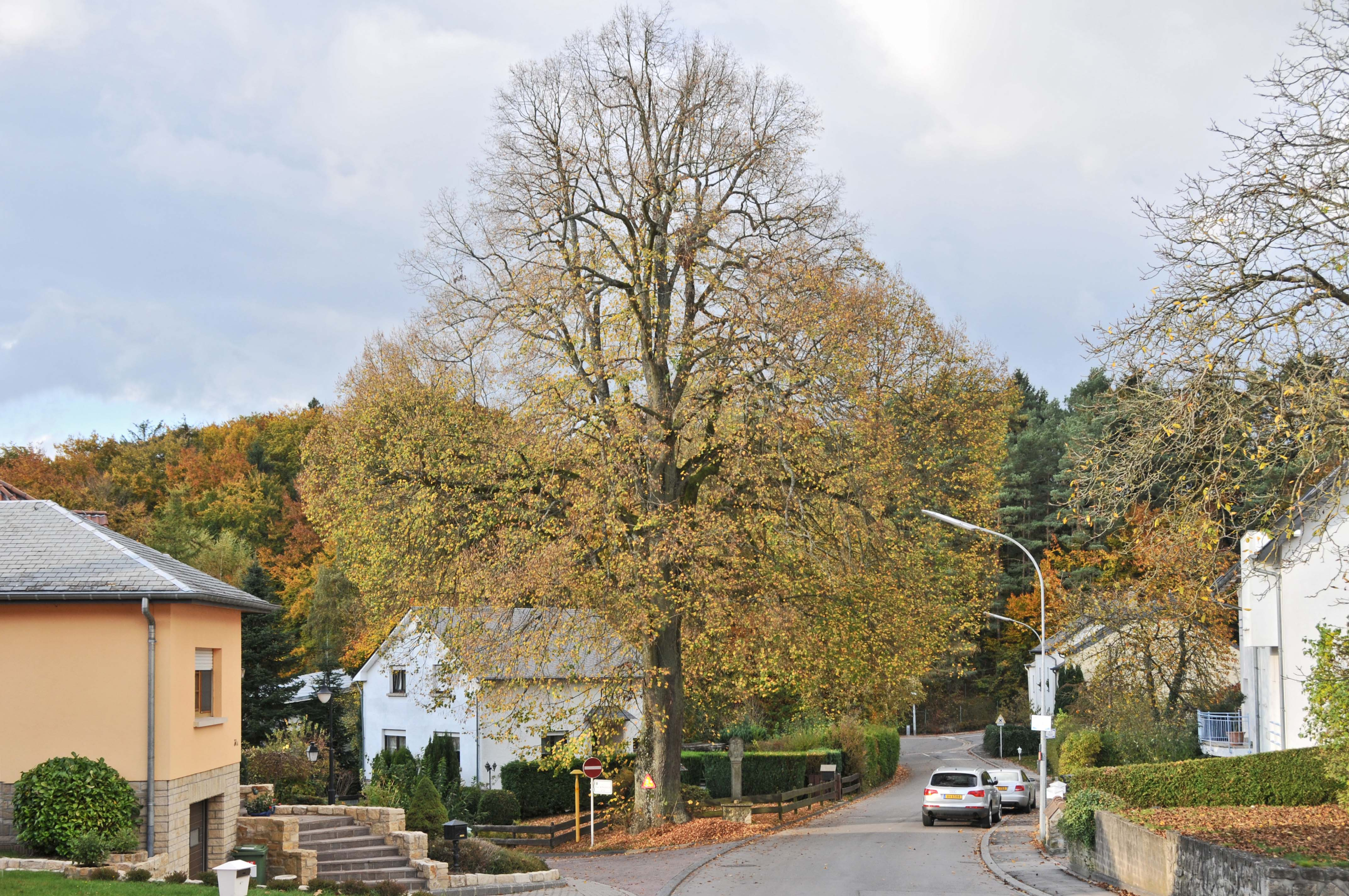 Remarkable lime tree (Tilia) in Bridel, Luxembourg